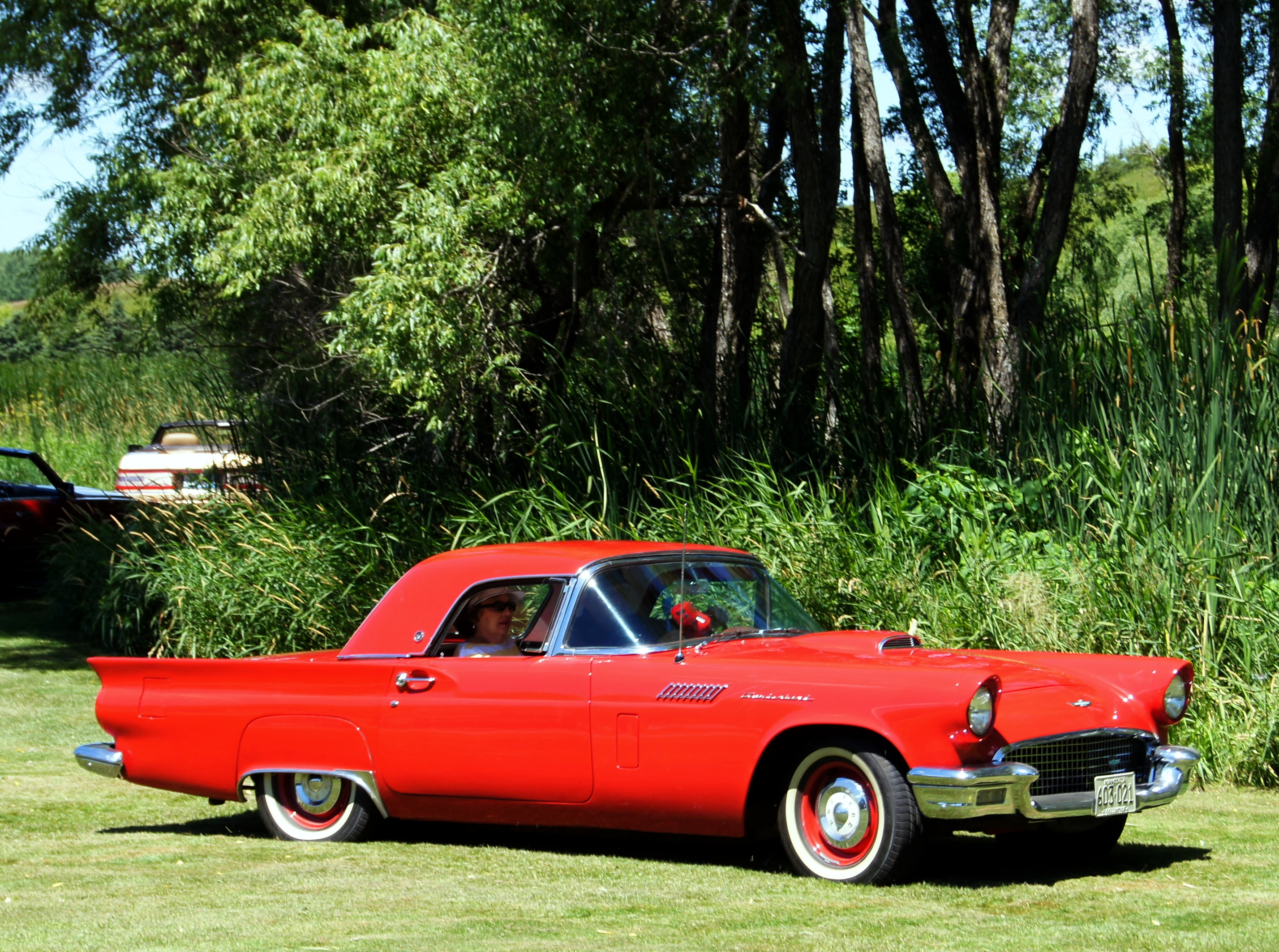 Paul and Carol hosted the 7th Annual "The Classic Cruise In" Another success: great food, fun and excellent weather